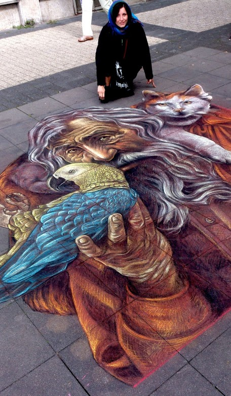 "Die Erzähler" (The Storytellers) This is Vera Bugatti chalk piece (Street Painting) at 35. Internationale Wettbewerb der Straßenmaler of Geldern (Germany) size 330 x 290 cm